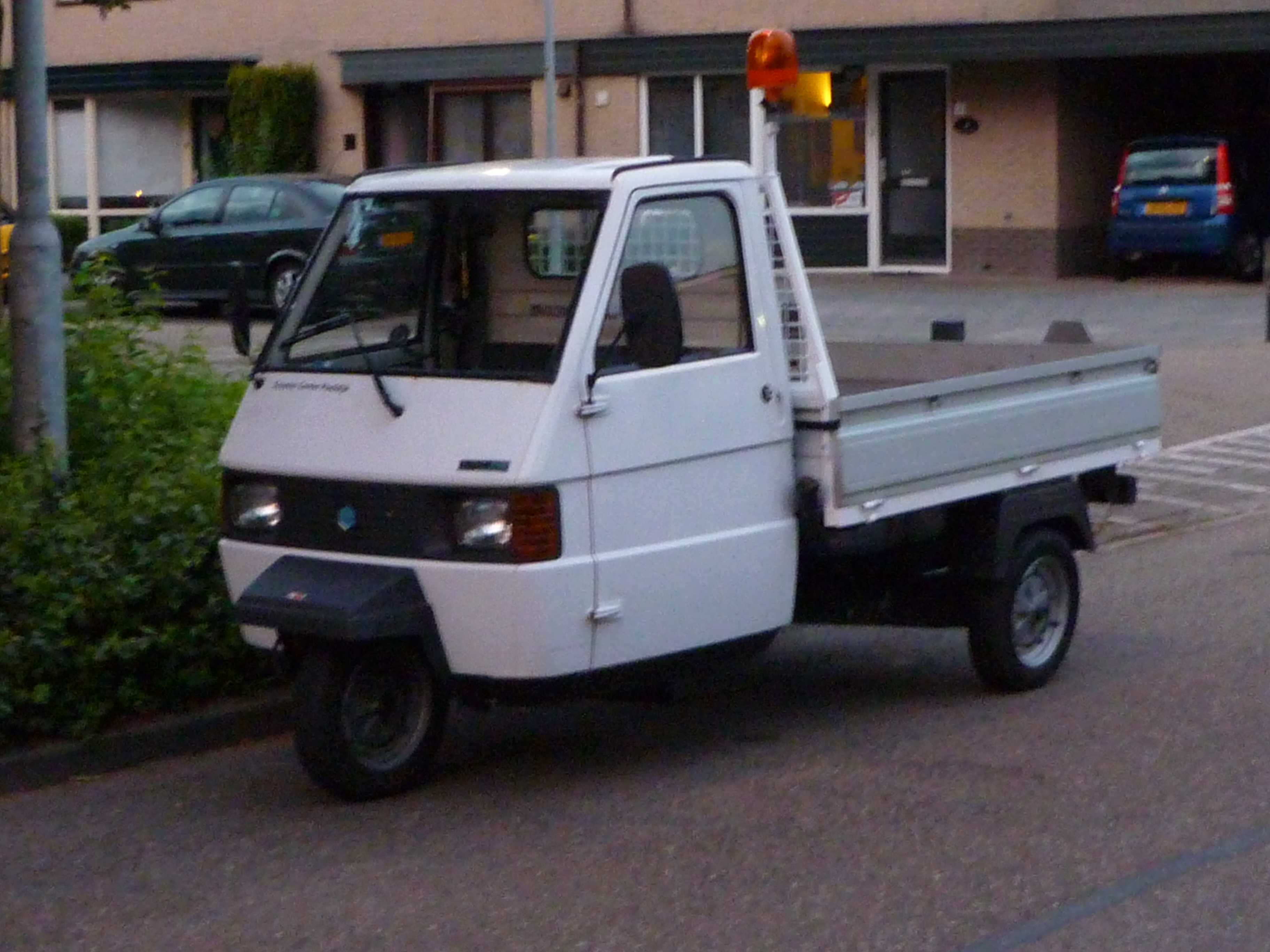 Piaggio Ape